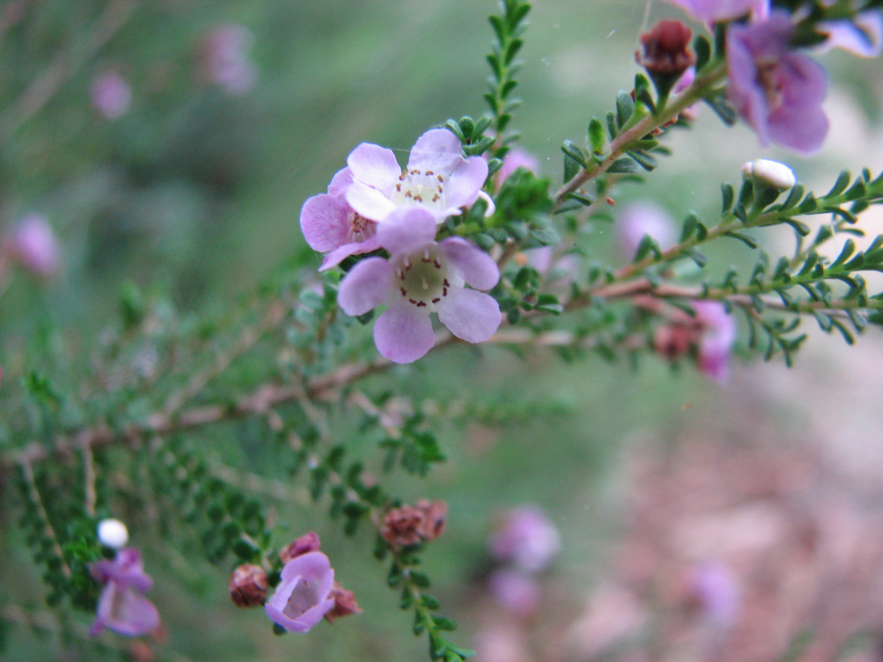 Thryptomene baeckeacea, (cultivated, labelled), Maranoa Gardens, Balwyn, Victoria, Australia